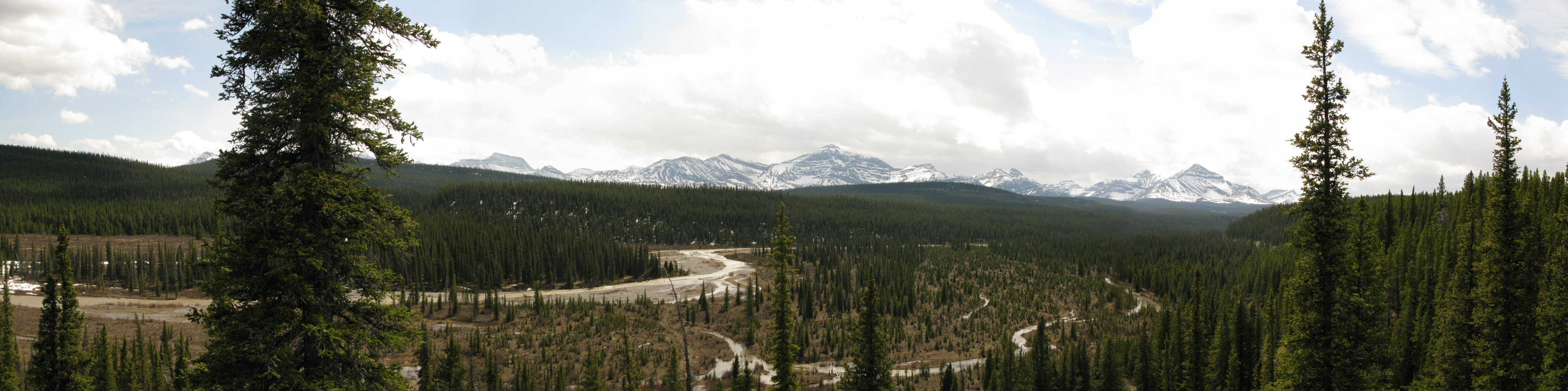 The Cardinal River from the Cardinal River Road, Alberta, Canada. Nikanassin Range seen over the foothills.